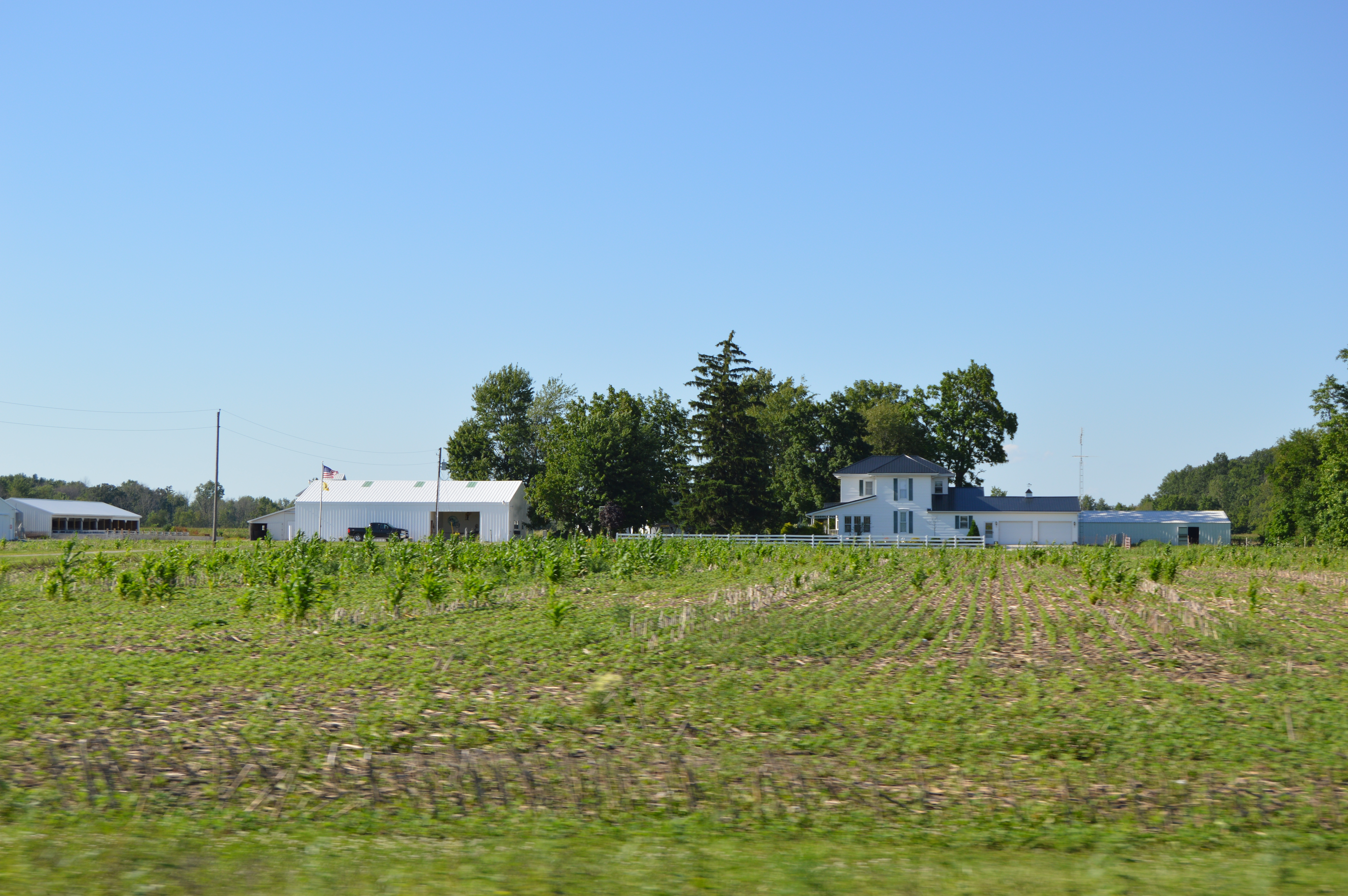 Small field in front of the farmhouse at 8669 State Road 18 east of Marion in Monroe Township, Grant County, Indiana, United States.